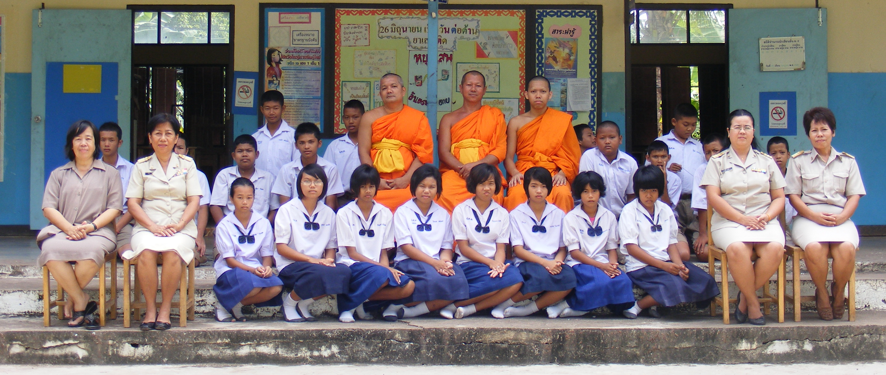 student in Ban Hat Suea Ten School in Ban Hat Suea Ten, Khung Taphao subdistrict, Mueang Uttaradit, Uttaradit Province, Thailand.